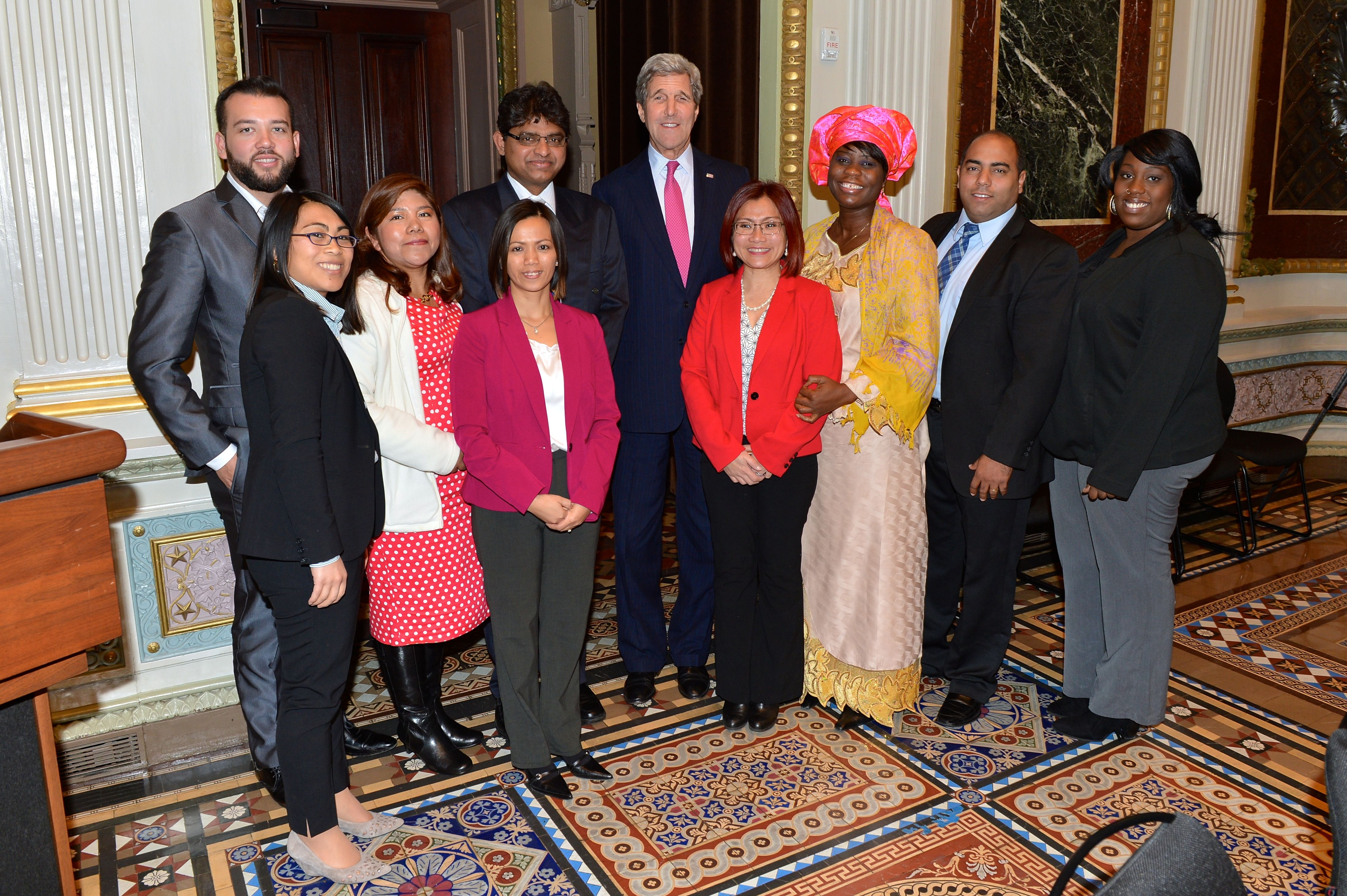 U.S. Secretary of State John Kerry poses for a photo with the U.S. Advisory Council on Human Trafficking at the Annual Meeting of the President’s Interagency Task Force to Monitor and Combat Trafficking in Persons (PITF), at the White House in Washington, D.C., on January 5, 2016. [State Department photo/ Public Domain]